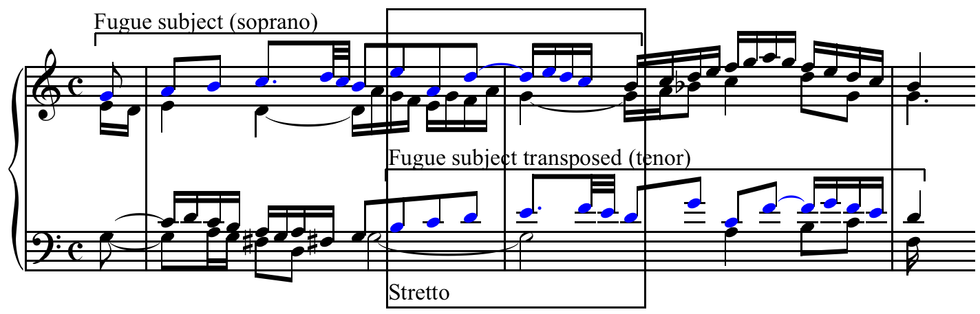 Example of stretto (in the box) from Bach's Fugue no. 1, Well Tempered Clavier, Book I, BWV 846, mm. 21-23. Created by Hyacinth (talk) 09:56, 6 December 2011 (UTC) using Sibelius 5.